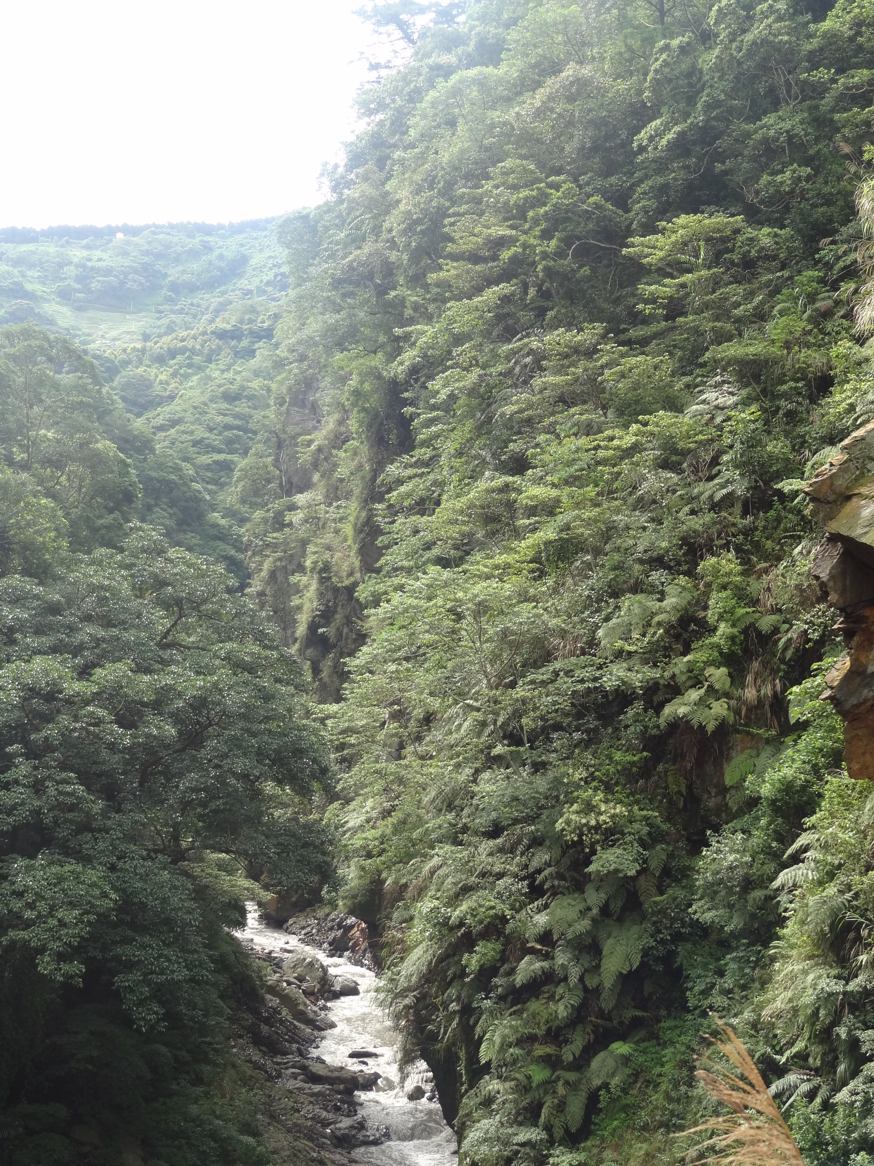 Looking into the gorge from Daguan Bridge.